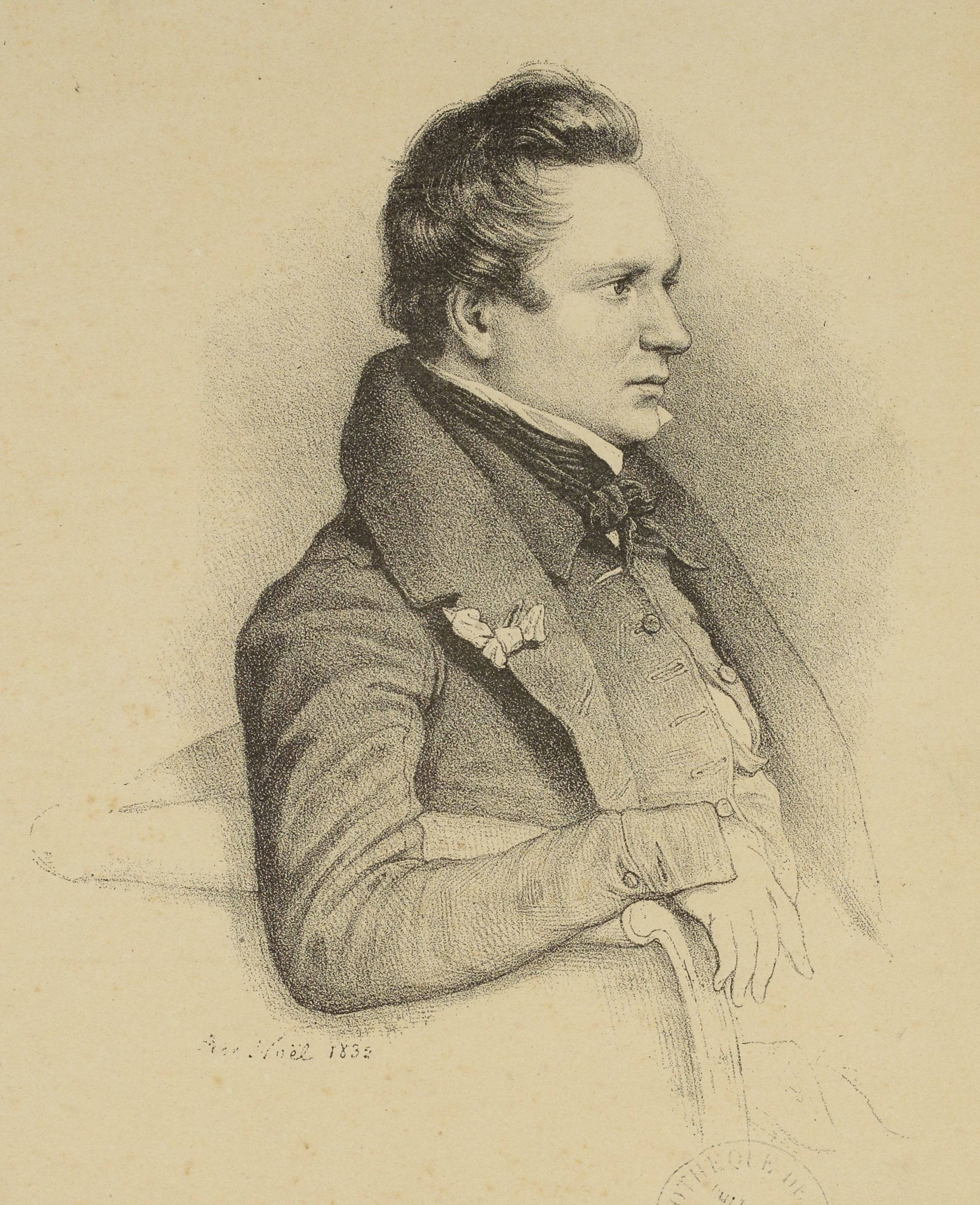 Portrait of Victor Hugo published in L'Artiste, Paris 1832